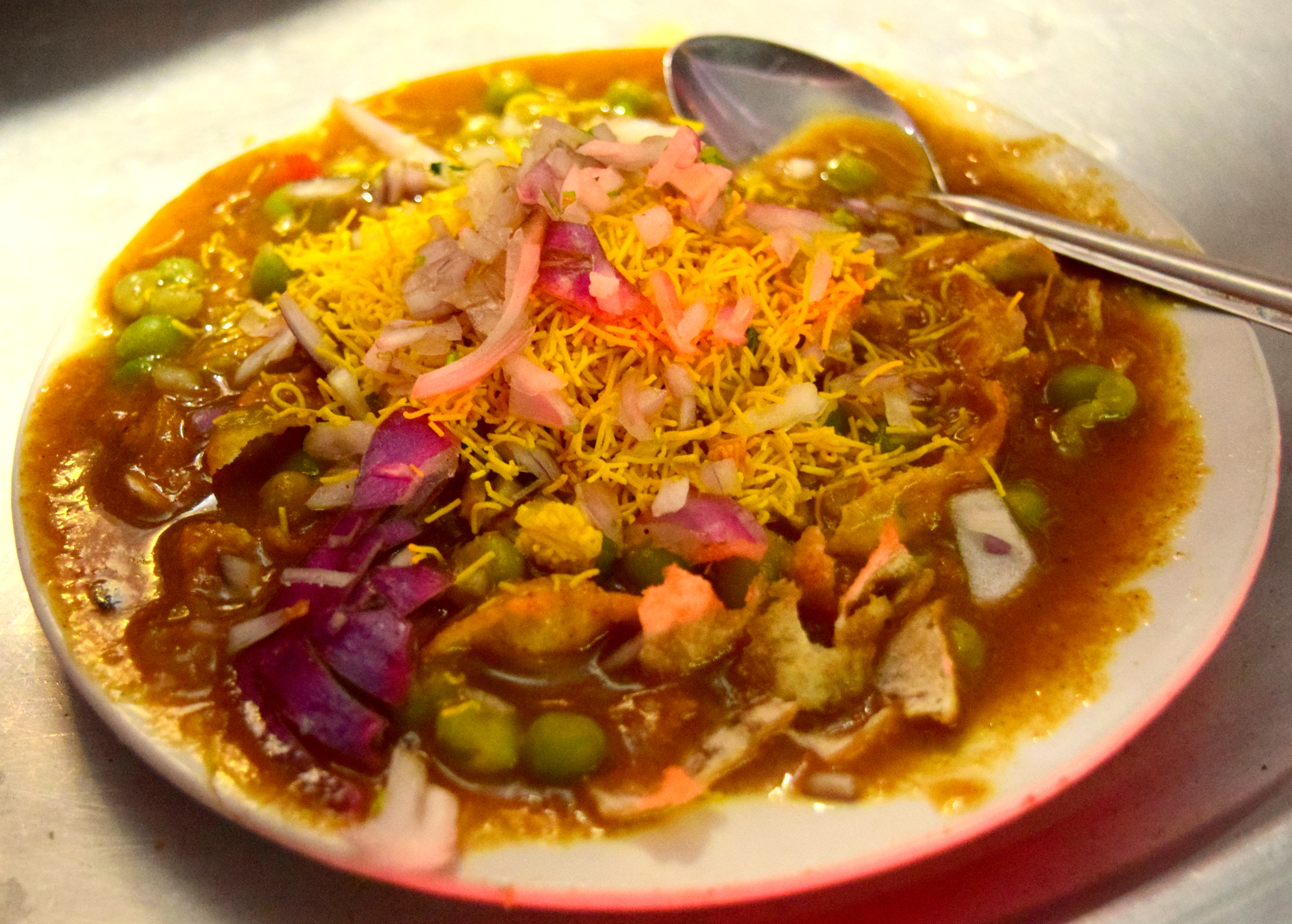 An evening snack